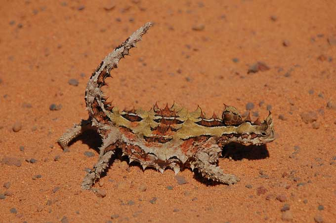 Thorny Devil Moloch horridus in Kalbarri National Park, Australia